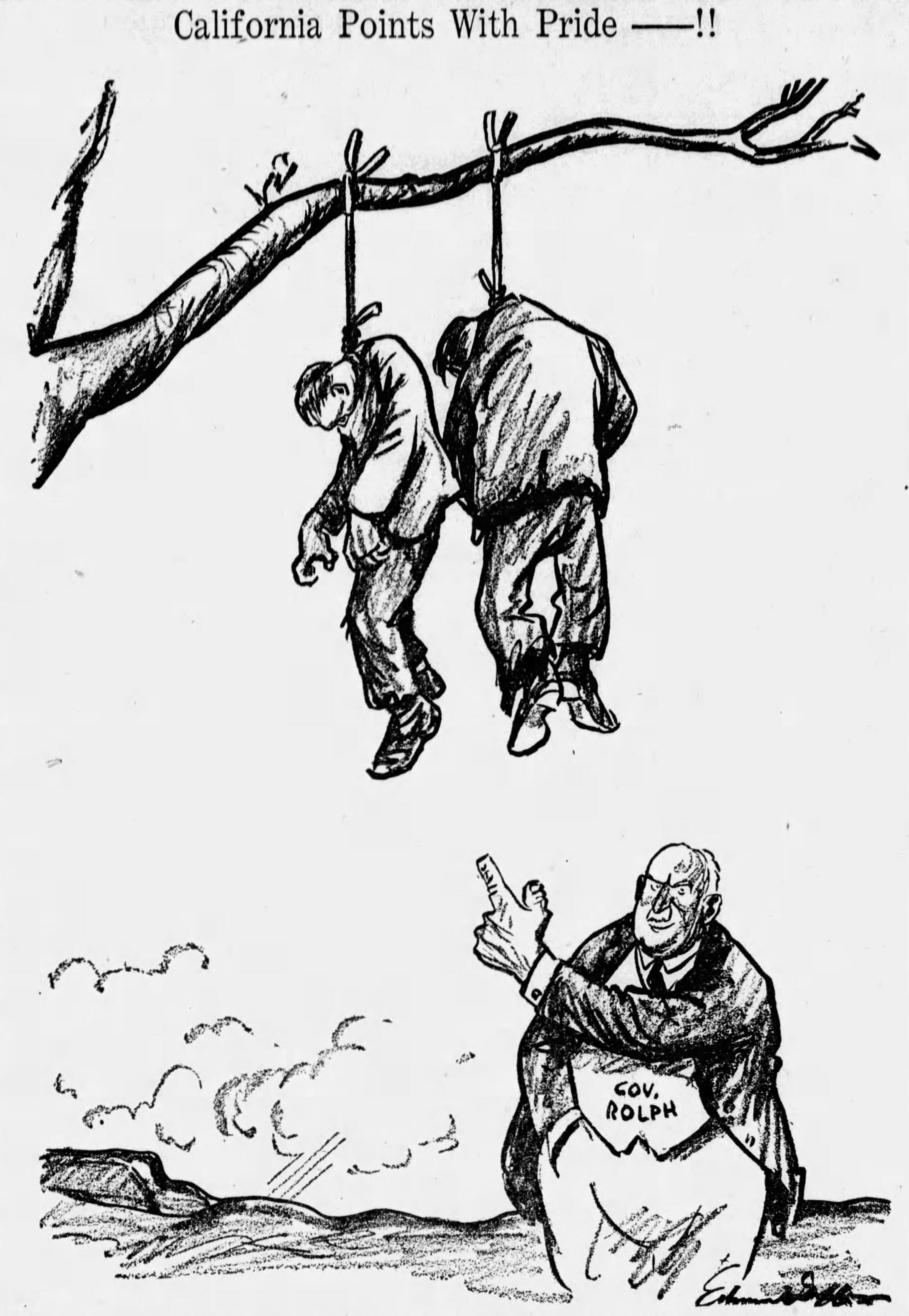 "California Points With Pride!", an editorial cartoon commenting on California Governor James Rolph's reaction to the lynching of the killers of Brooke Hart. Winner of the 1934 Pulitzer Prize for Editorial Cartooning.